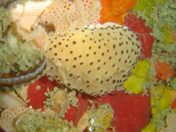 Nippled nudibranch at Cape Town dive site South Lion's Paw., South Lion's Paw, Clifton, Cape town.